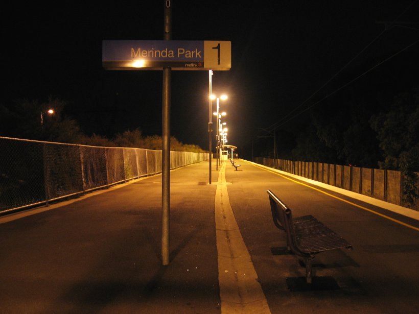 Photo taken by me, April 2007 at approximately 10pm.